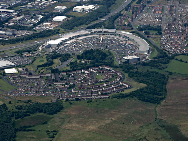 Glasgow Fort shopping centre from the air